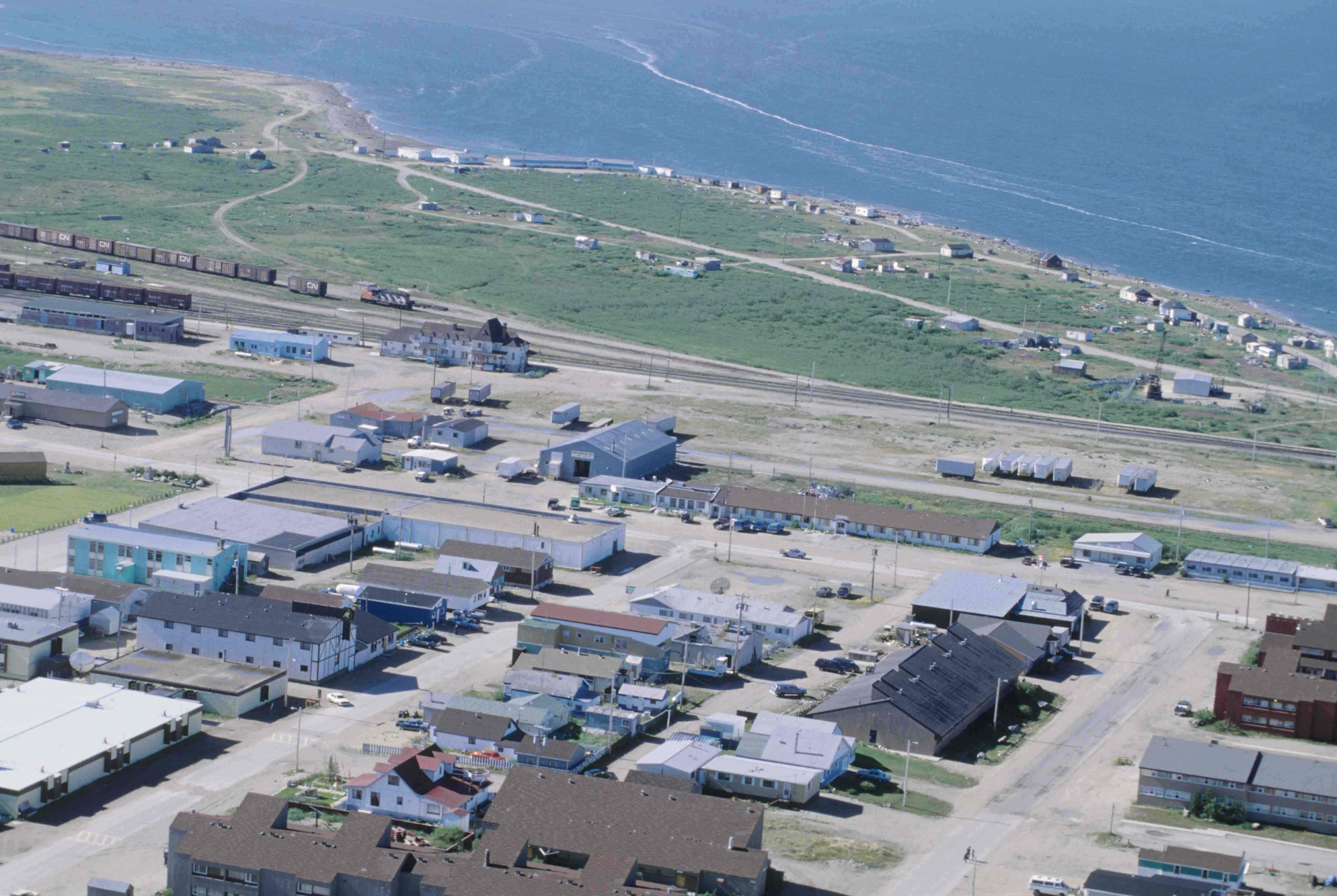 Churchill, Manitoba, Canada: Western part of town with railway station and "The Flats"